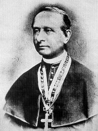 Franjo Rački (1828-1894)